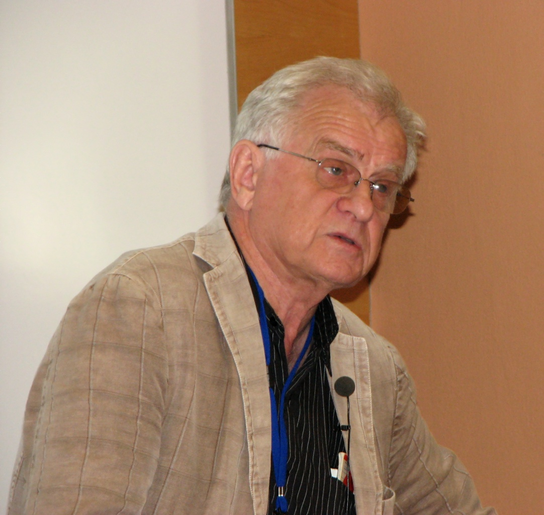 Prof. John C. Butcher during International Conference on Computer Modelling and Simulation CSSim 2009 at Brno University of Technology, Faculty of Information Technology in Czech Republic